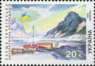 Stamp of Ukraine